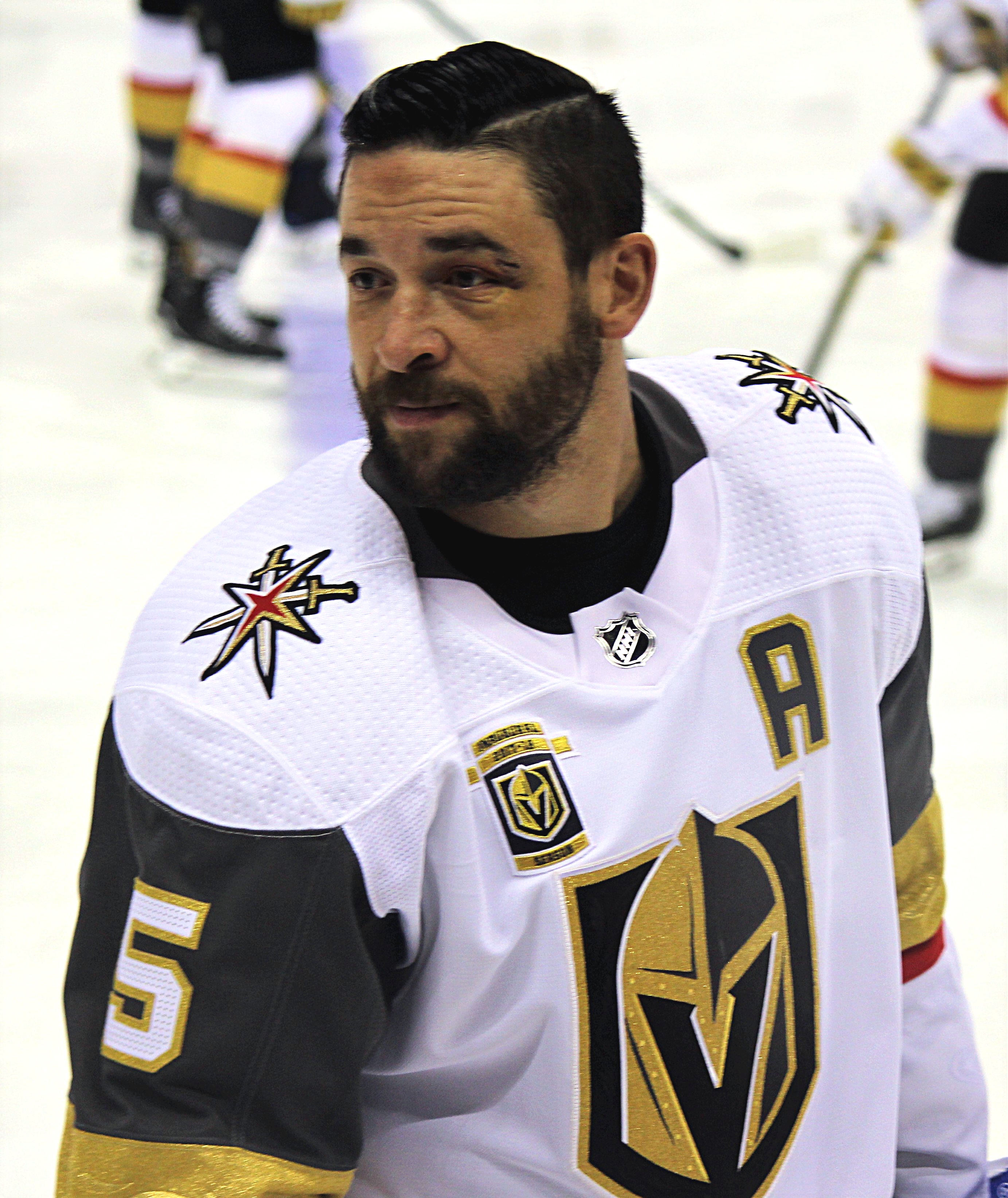 Vegas Golden Knights defenseman Deryk Engelland during a game against the Washington Capitals, February 4, 2018, at Capital One Arena in Washington, D.C.